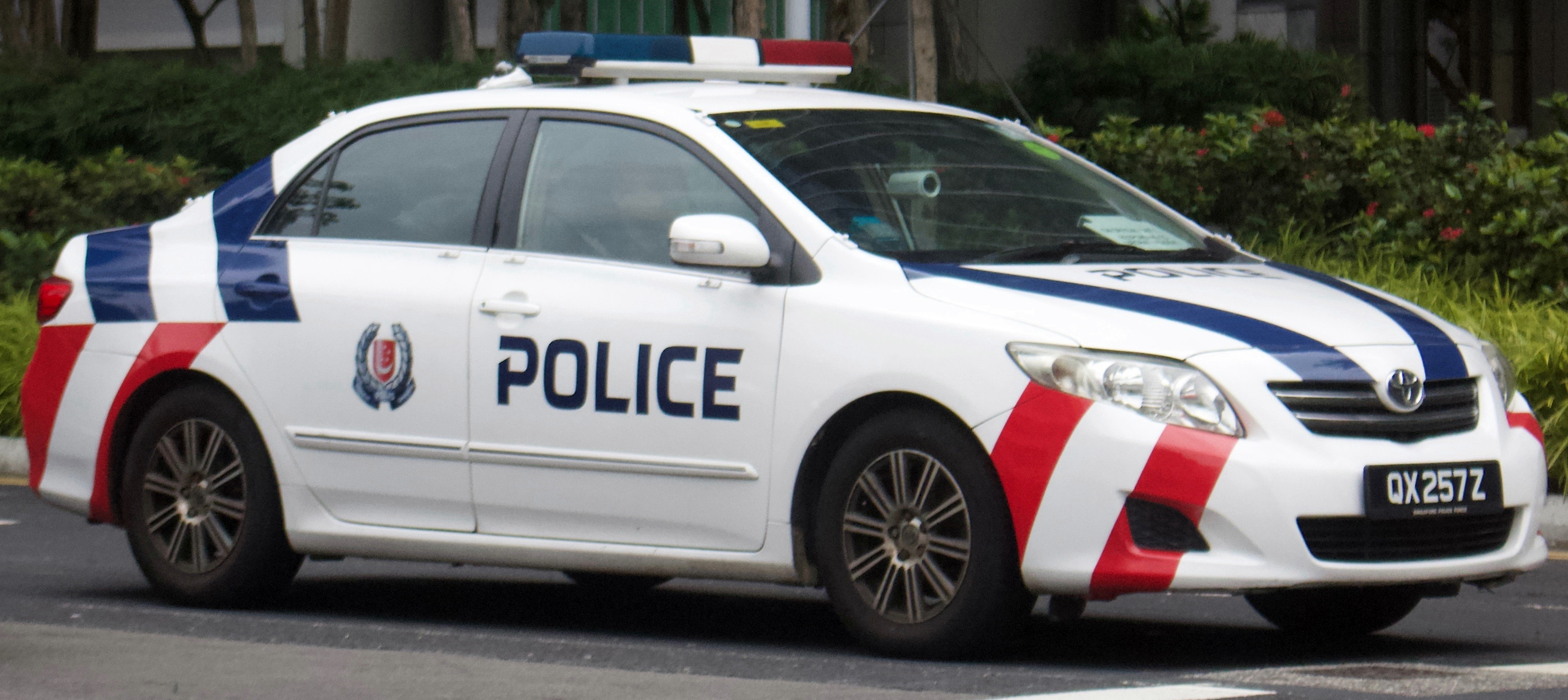 Toyota Corolla Altis E140 wearing the new Singapore Police Force livery introduced in 2015.